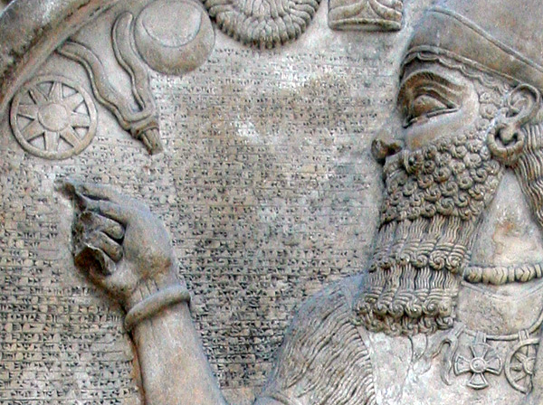 Detail of stele of Ashur-nasir-pal II in the British Museum, London. Assyria, 9th century BC.